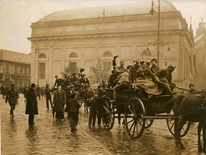 1918. october hungarian revolution